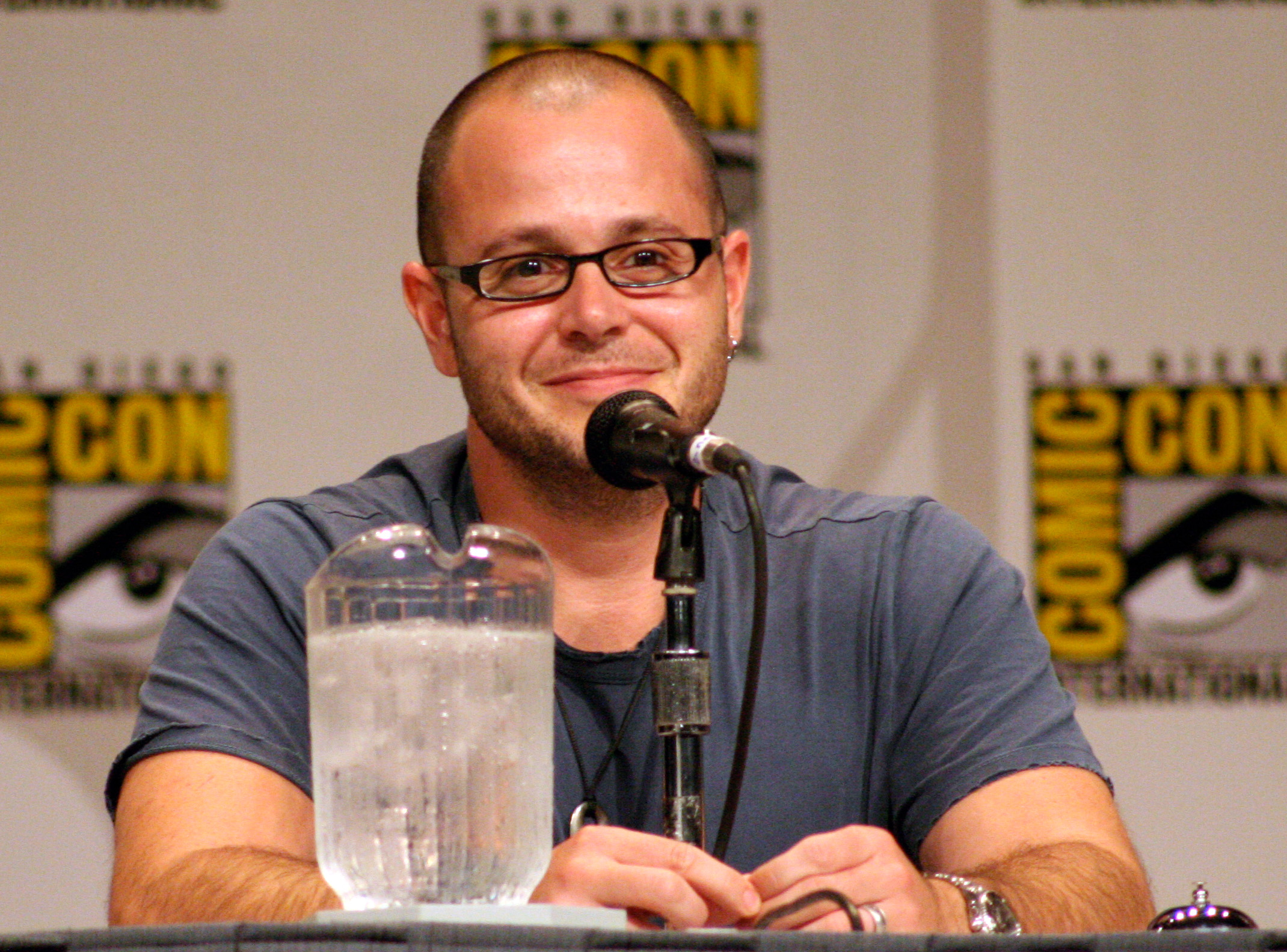 Damon Lindelof at the Comic-con LOST Panel.